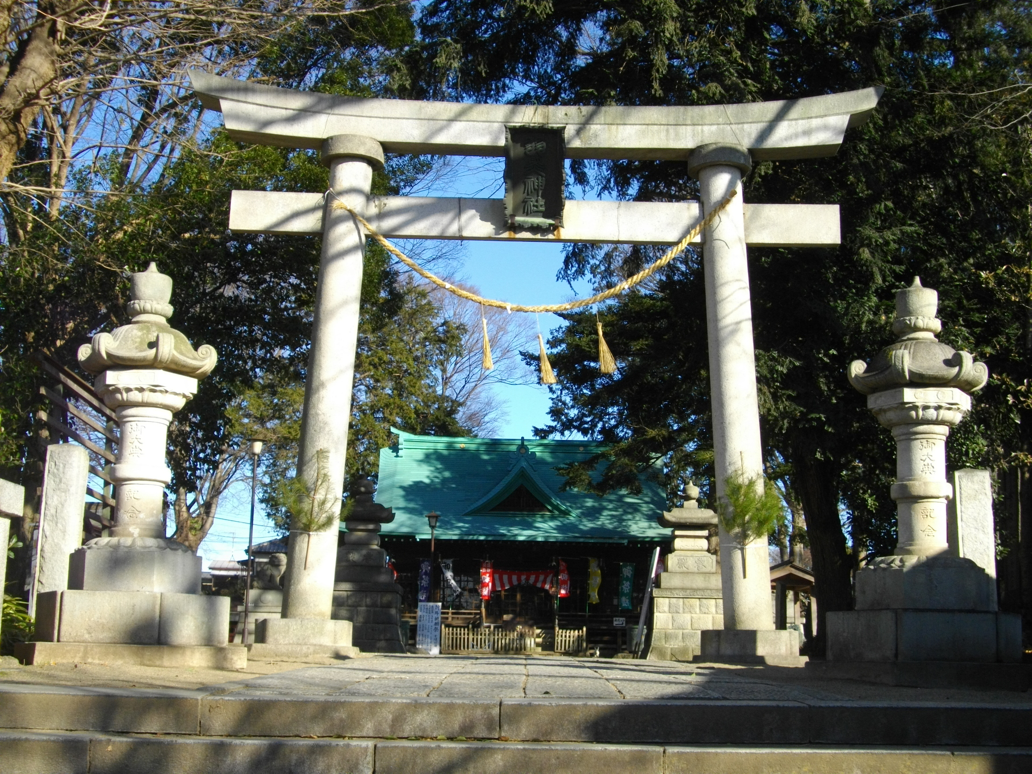 Shimodate Haguro Jinja